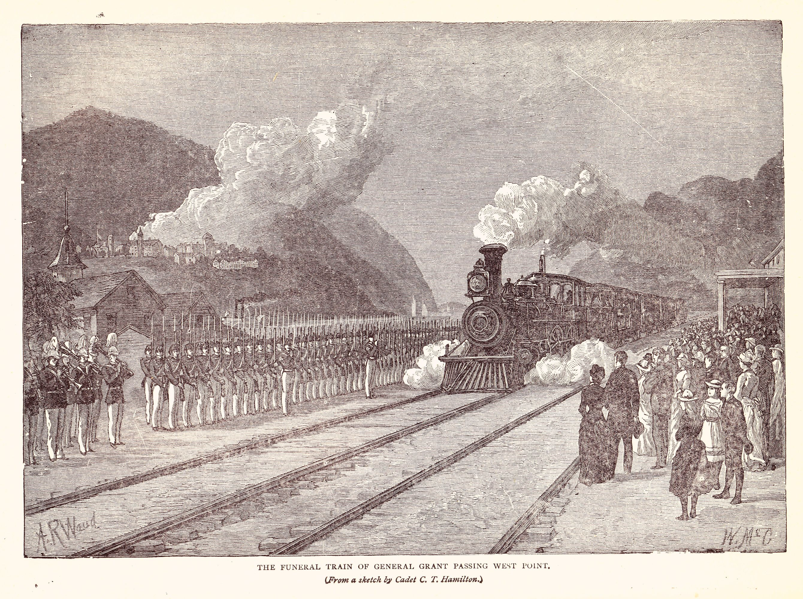 Engraving of Ulysses S. Grant funeral train passing West Point, New York.From a sketch by Cadet C.T. Hamilton